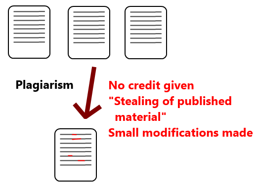 An example of plagiarism, commonly found (when plagiarism actually does occur) in academia. This particular diagram shows the appropriation of a published literary work without citation.